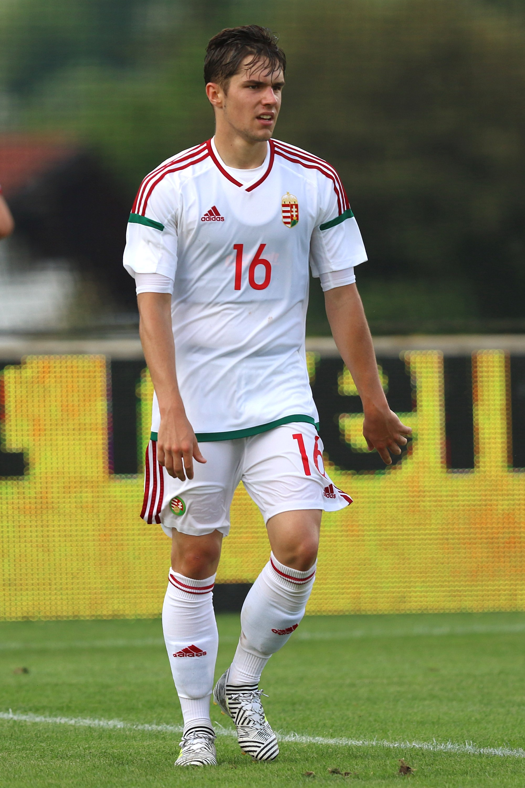 Friendly match: Austria U-21 (red shirts) vs. Hungary U-21 (white shirts) at 12. June 2017 in the Sonnenseestadion in Ritzing 2:1 (1:1) – The photo shows Máté Katona (MTK Budapest)